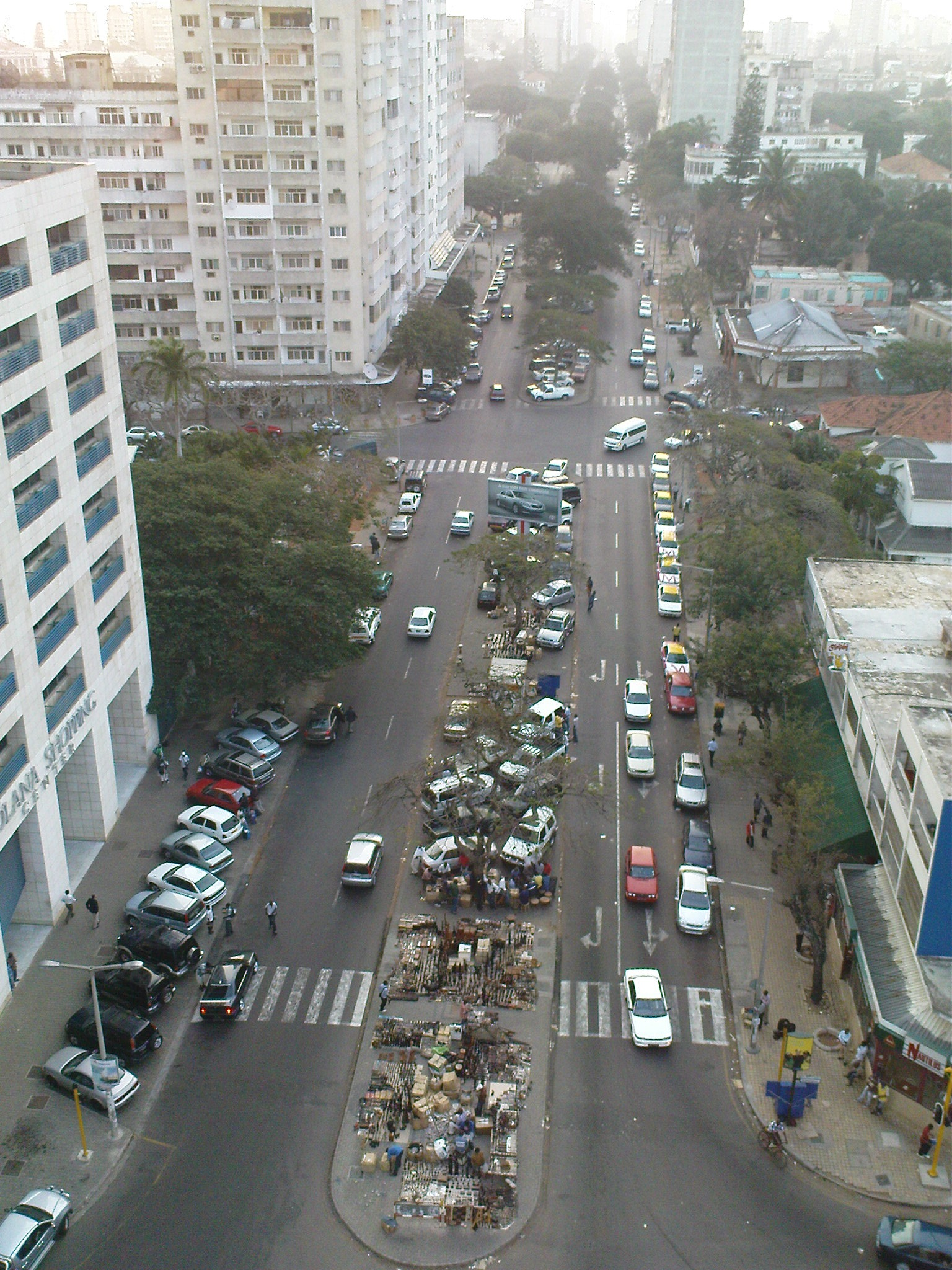 View over Avenida 24 de Julho, Maputo, Mozambique